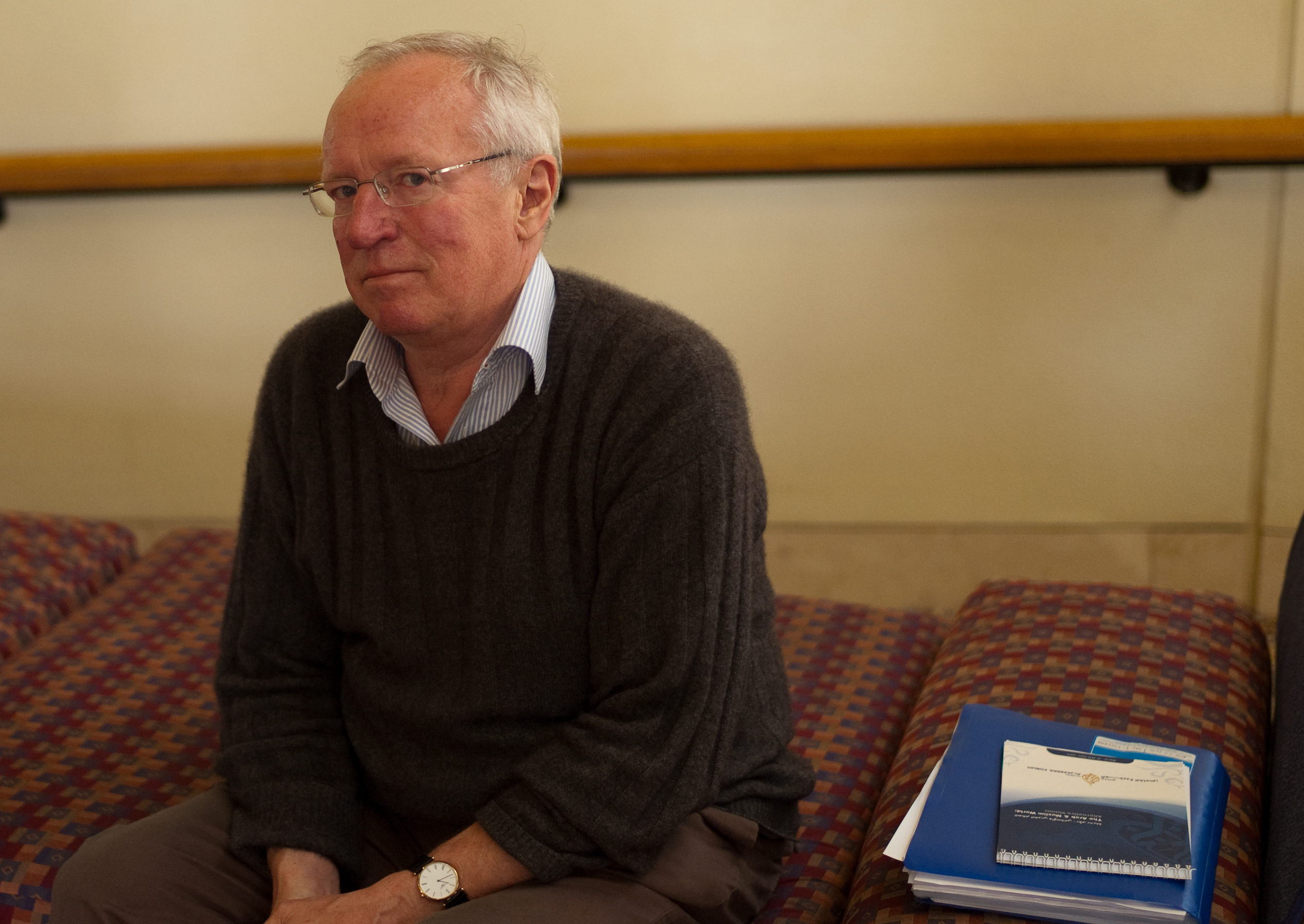 Robert Fisk at Al Jazeera Forum 2010